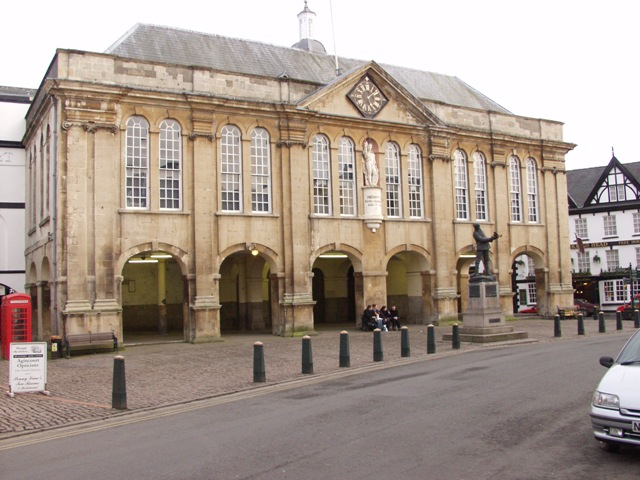 Monmouth Shire Hall. Monmouth County Court, which closed in 2002, was located here.